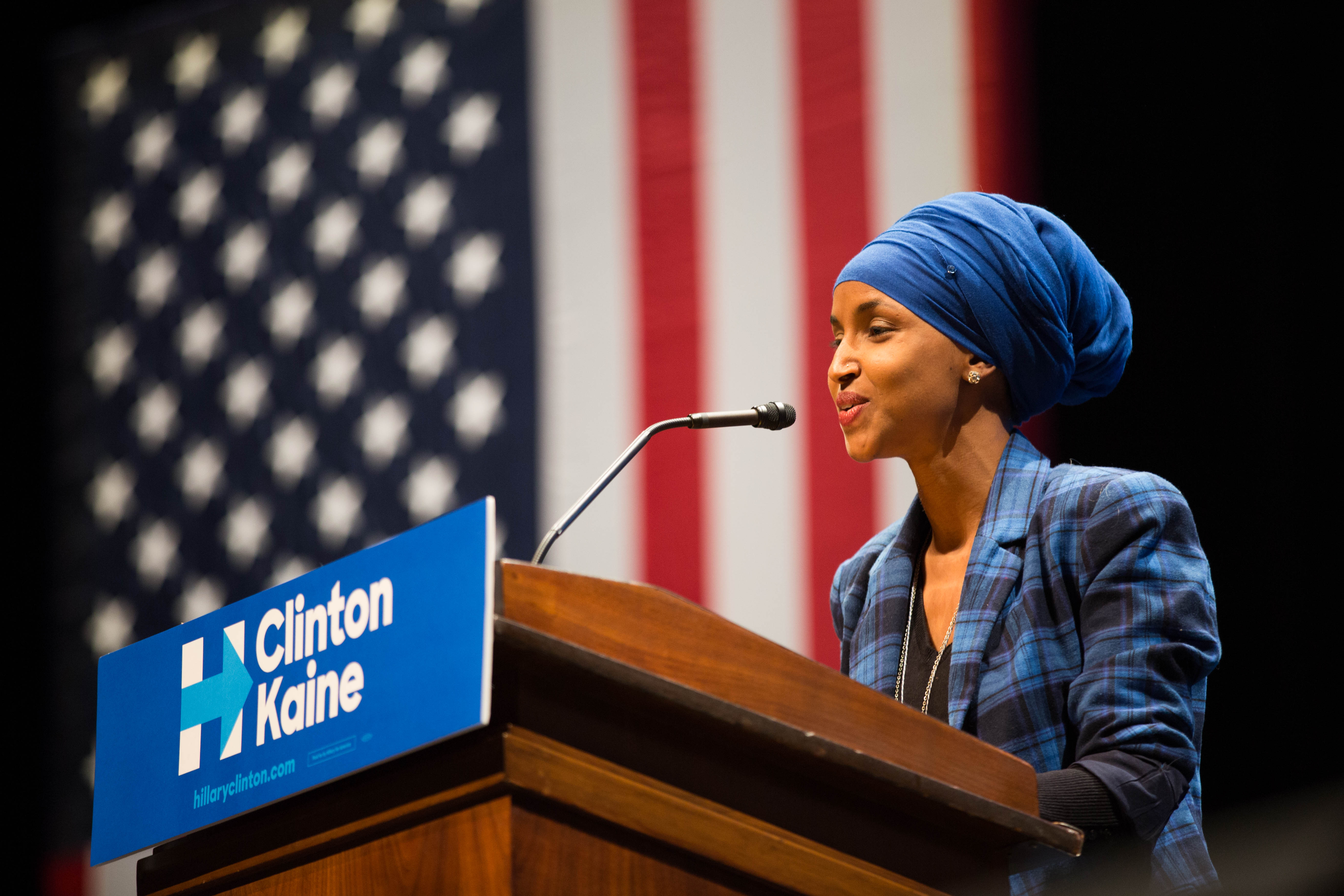 Ilhan Omar Somali American candidate for Minnesota State Representative, Ilhan Omar speaking at a Hillary for MN event at the U of MN